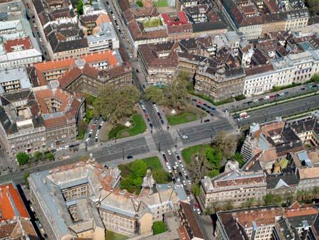 Kodály körönd, Budapest, Hungary, aerial photography